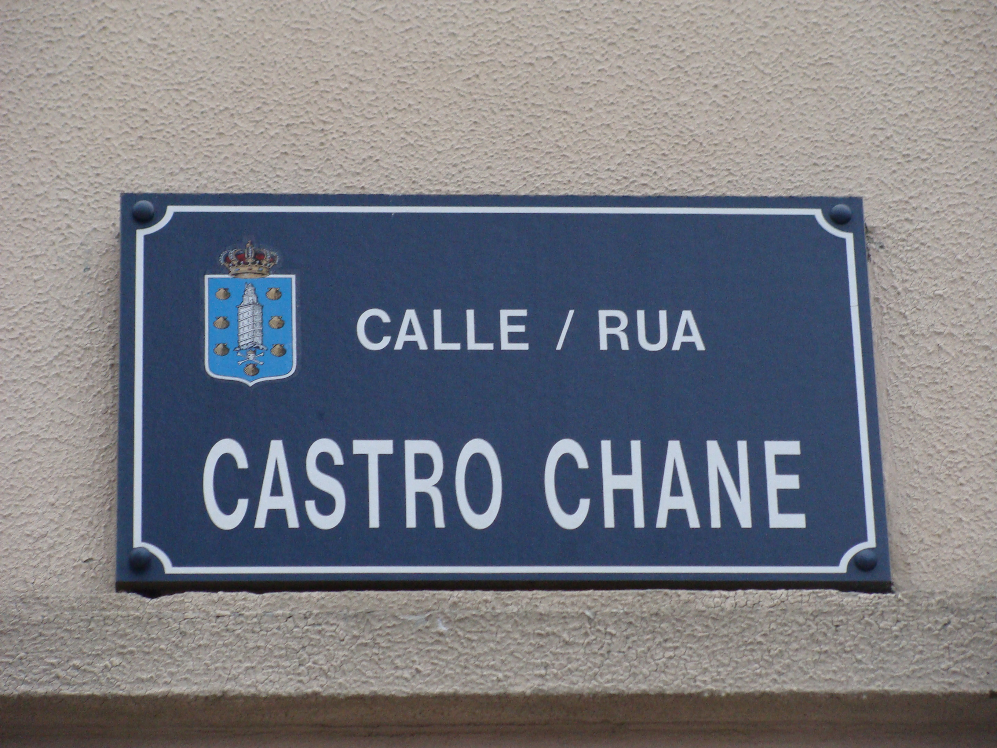 Castro Chane street sign in A Coruña, Galicia, Spain.